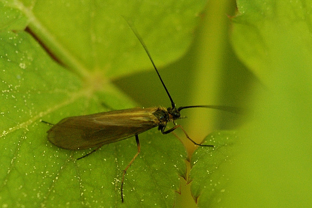 Picture taken in Commanster, Belgian High Ardennes . Species: Limnephilus auricula